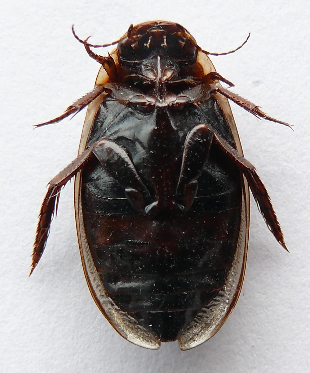 see File:Colymbetes fuscus-01-by itu.jpg